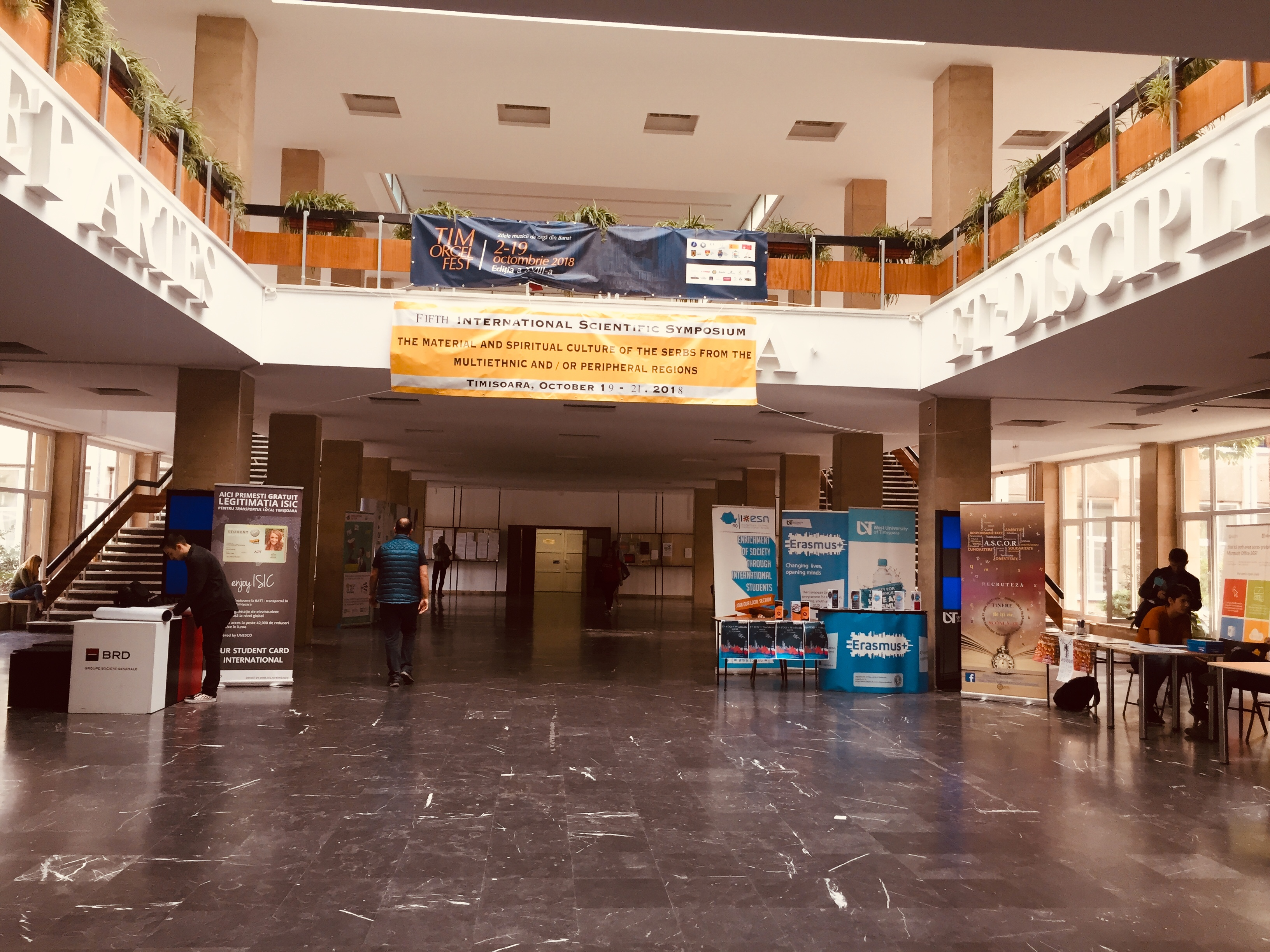 Main hall of the West University of Timisoara